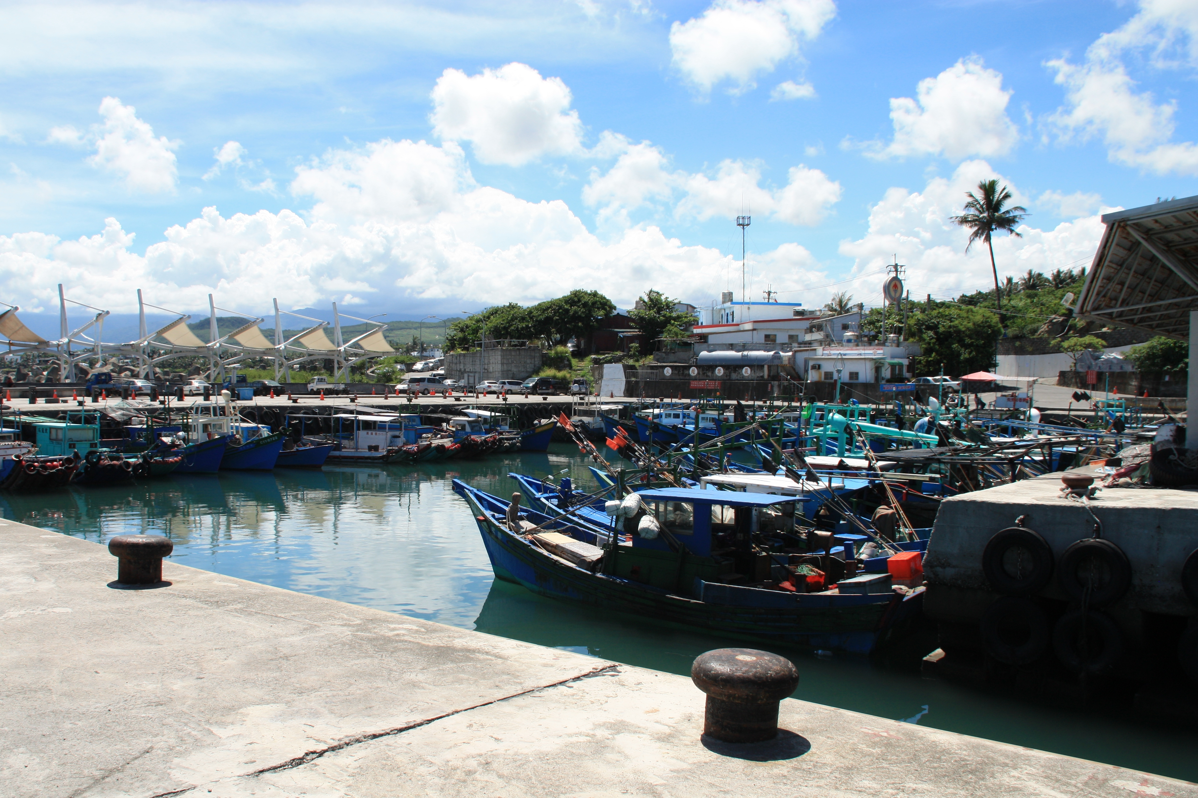 Taitung County Taitung City FùGāng fishing port Starting point for boat trips to Lǜ Dǎo (Green Island)